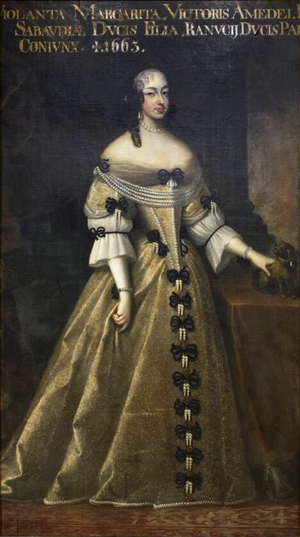 Portrait of Marguerite Yolande of Savoy (1635-1663)